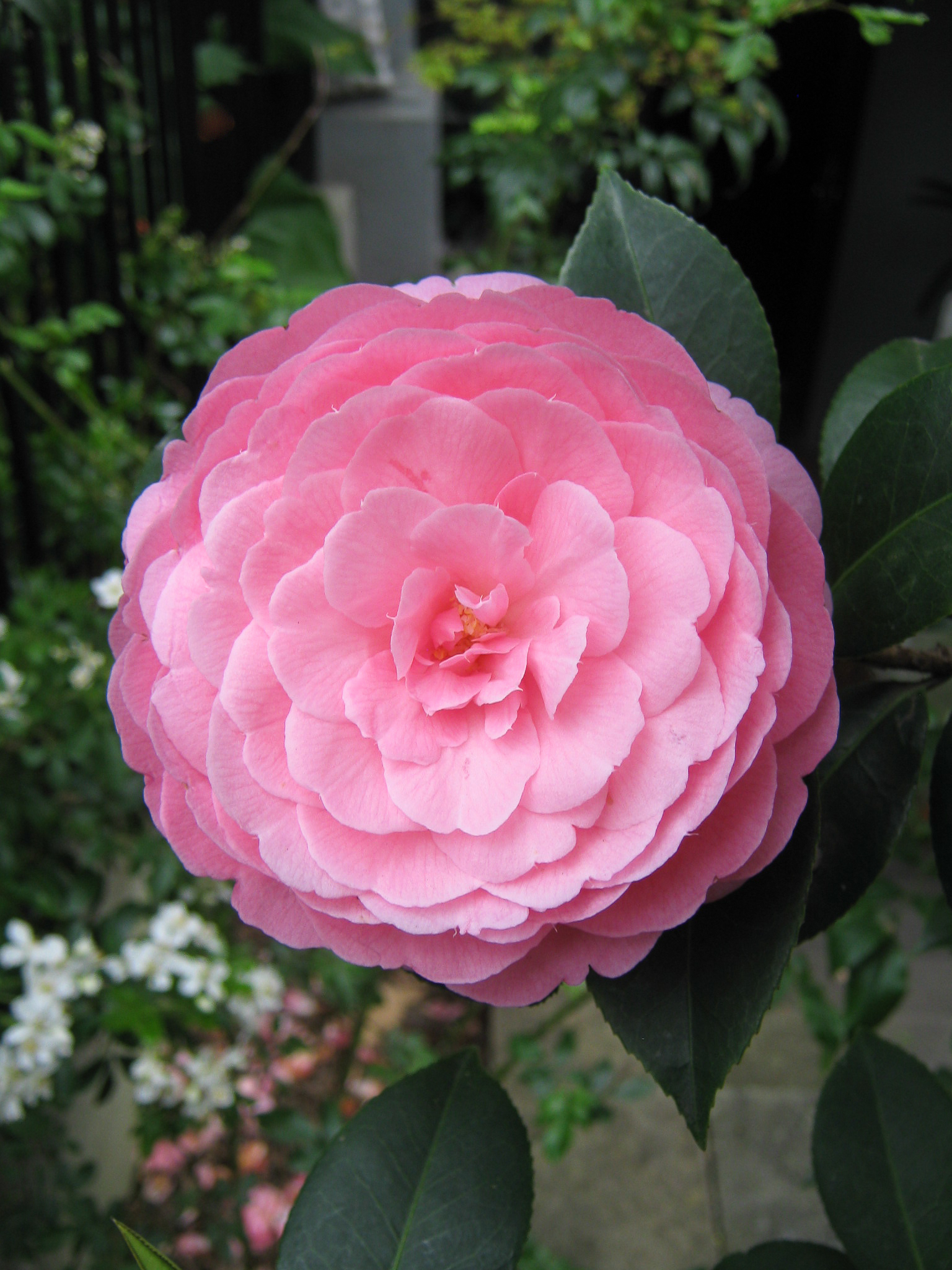 Camellia 'E.G. Waterhouse' williamsi cross raised by Waterhouse in 1946 at Eryldene, NSW and named after himself; photographed in Dalgety Street, St Kilda, Victoria.